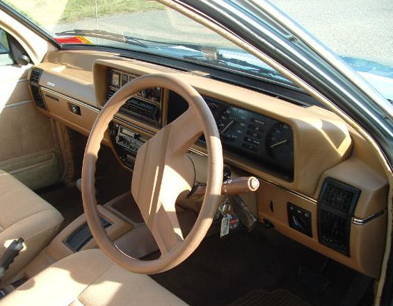 Interior of a 1978–1980 Holden VB Commodore SL/E sedan.